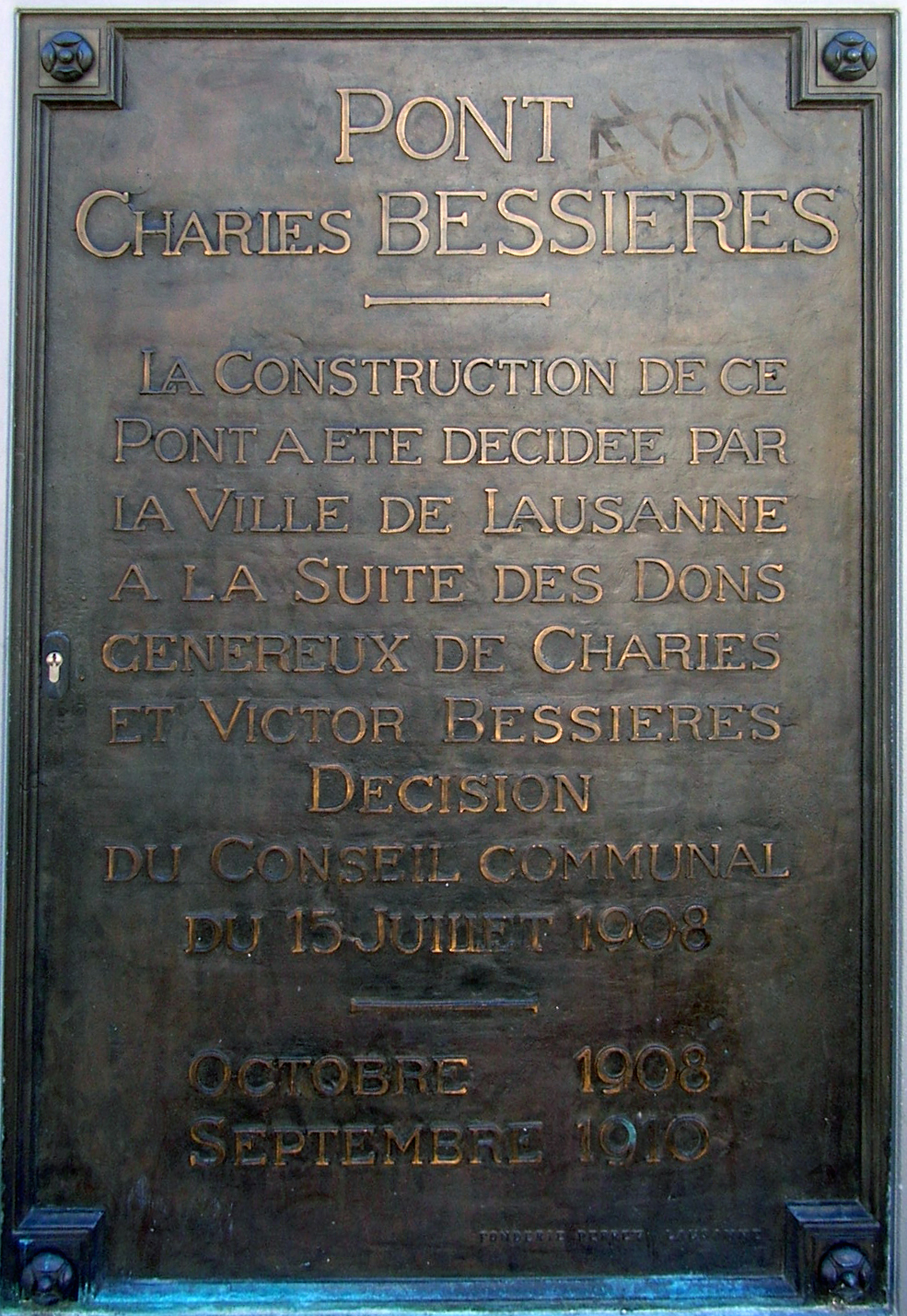 Bessieres bridge Memorial plate (Lausanne, Switzerland)